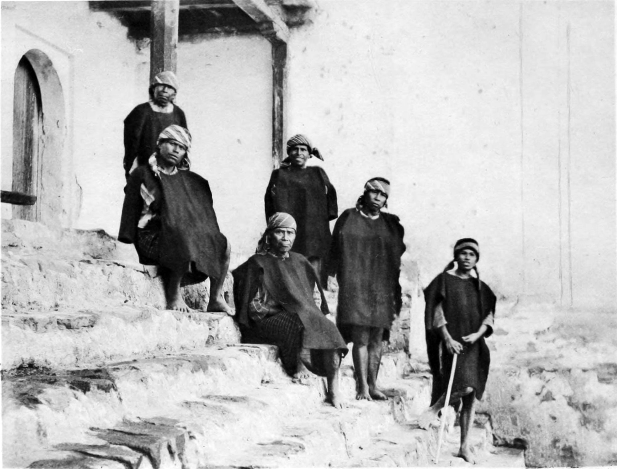 Men from San Antonio Palopo, Sololá, Guatemala in 1895.